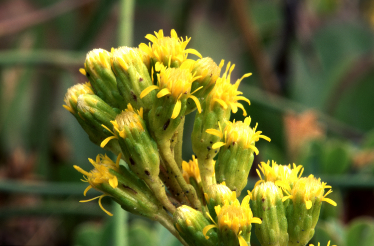 Solidago simplex at Humboldt Bay National Wildlife Refuge Complex, California, USA